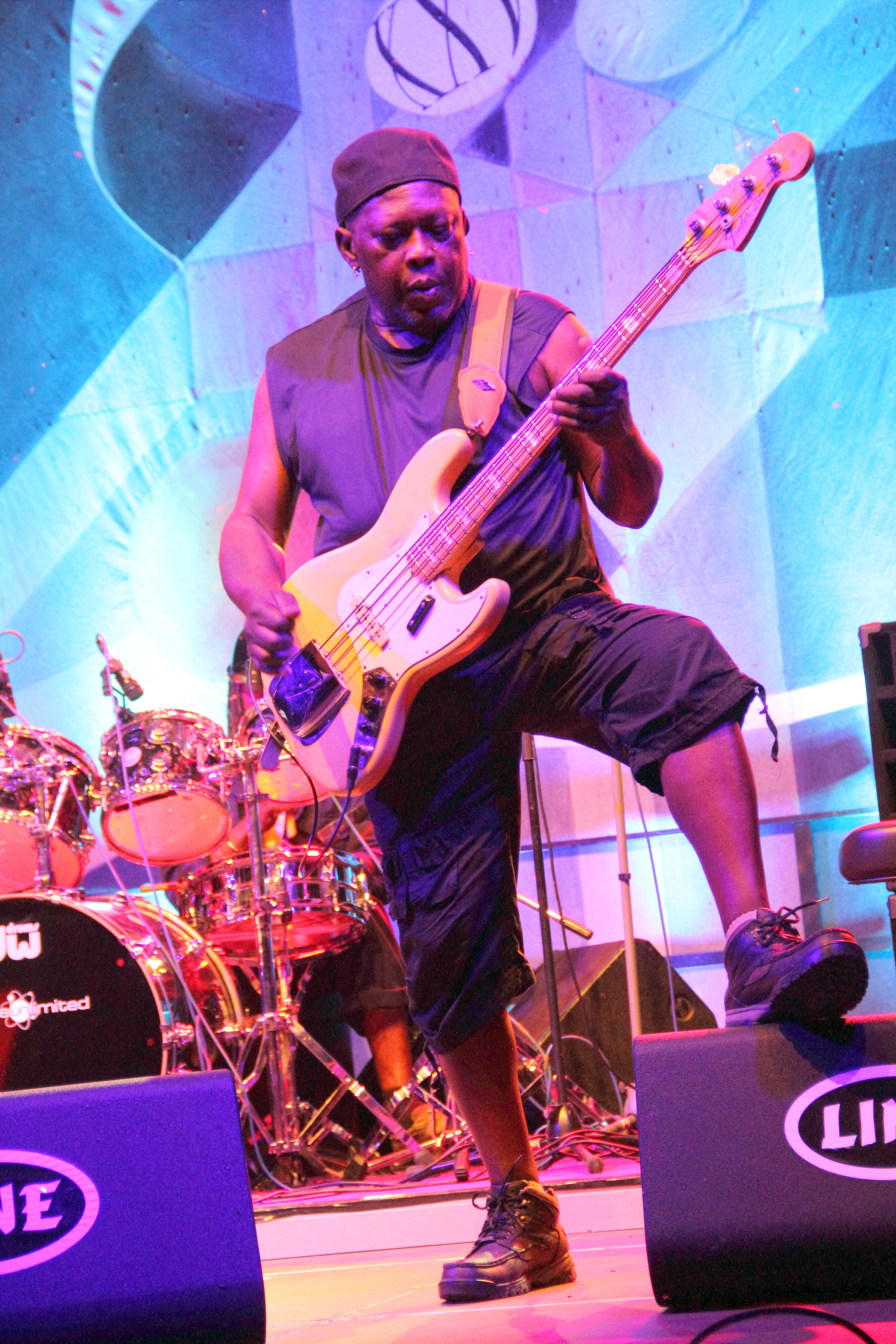 Robbie Shakespeare at concert with Sly Dunbar and Nils Petter Molvær at TFF Rudolstadt, 2015.